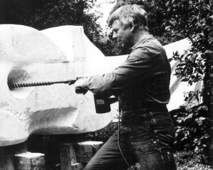 Vilem Kocych portret